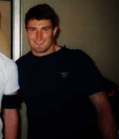 If used somewhere other than Wikipedia, Nelson, by name.